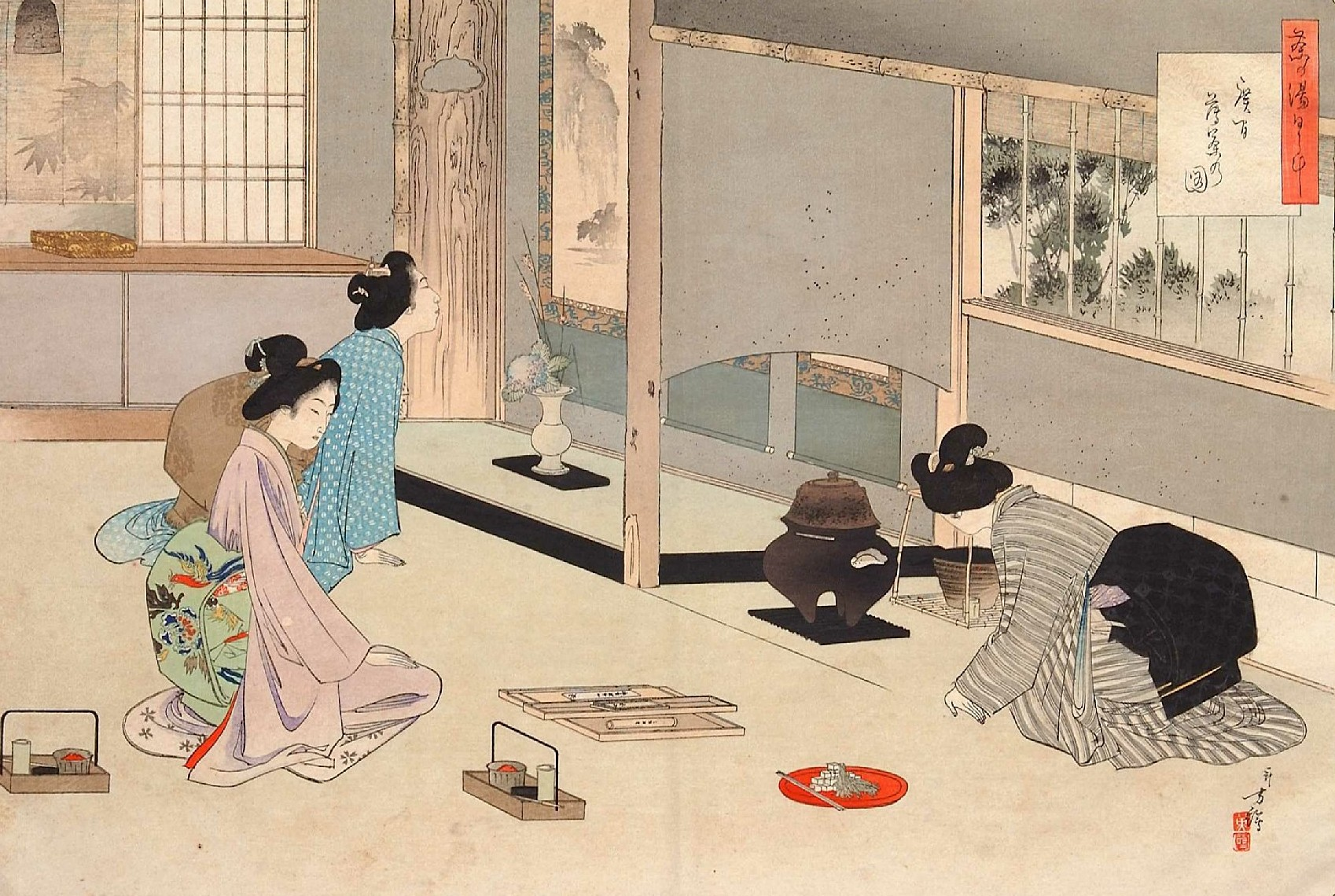 Making Usu-cha - a weak infusion of powdered tea, from the series A Tea Ceremony Periwinkle, woodblock print